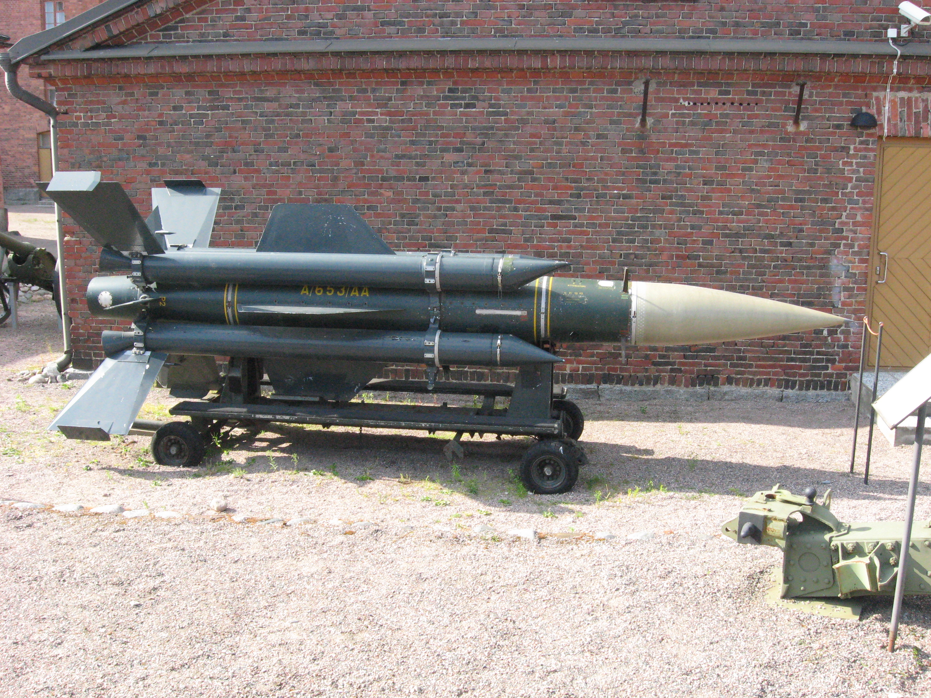 Side view of a Thunderbird MK I anti-aircraft missile at Artillery Museum, Hämeenlinna, Finland